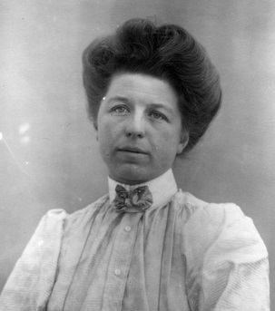 Katherine Douglas Smith c.1910: Photograph by Colonel Blathwayt. He was the father of Mary Blathwayt and they lived at Eagle House in Somerset. The pictures were taken between 1909 and 1911